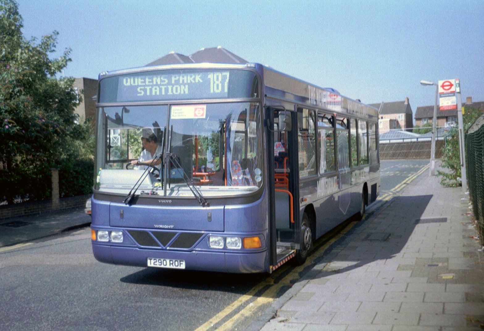 London Traveller T290 ROF, a Volvo B6BLE with Wright Crusader vodywork, operating London contracted route 187. It is a former demonstrator, and was painted in demonstrator livery when this picture was taken. Its stay in the fleet was short-lived.